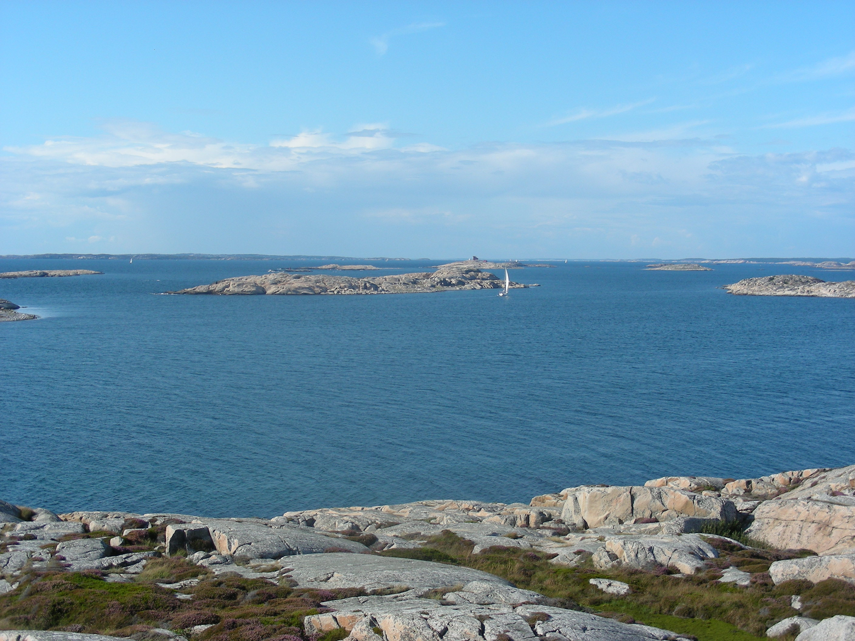 Photograph by: Thomas Eliasson, SGU Date: 20090811 Place: Koster National Park, Sweden